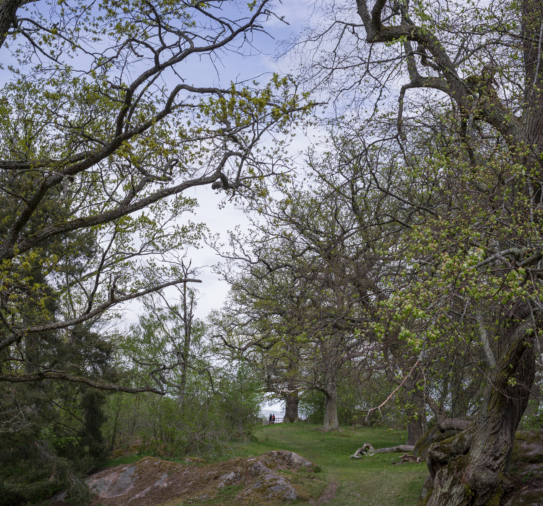 Mature oaks guard the path to a vantage point